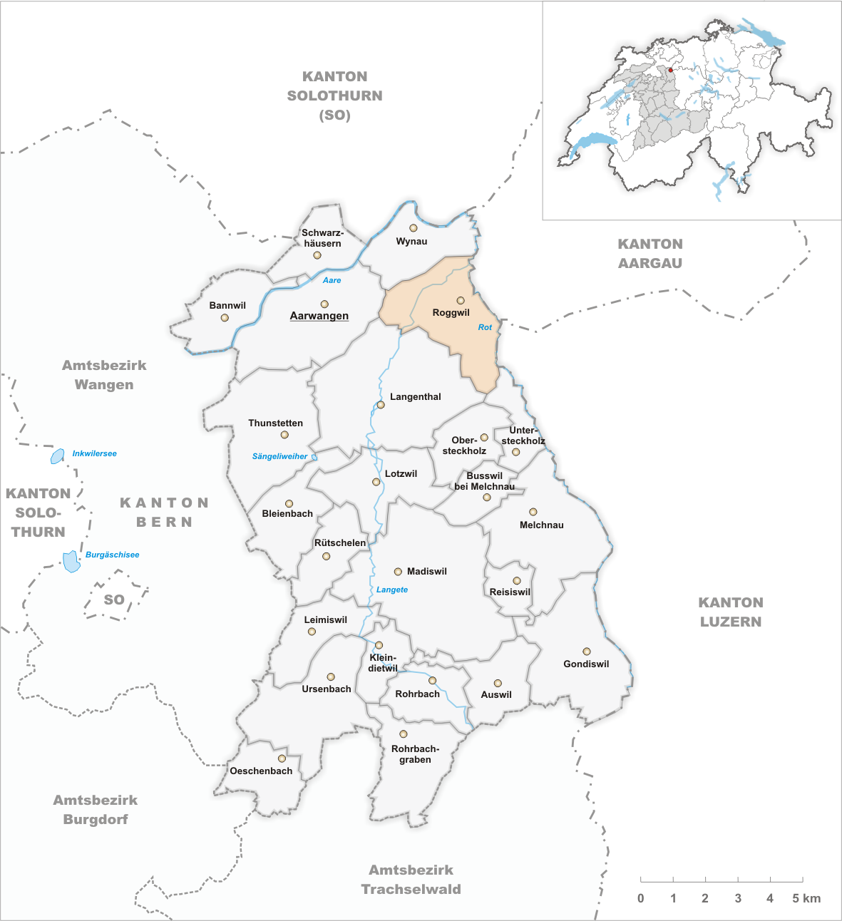 Municipality Roggwil